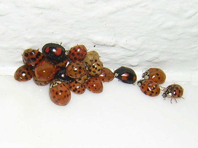 Congregation of Asian lady beetles (Harmonia axyridis)